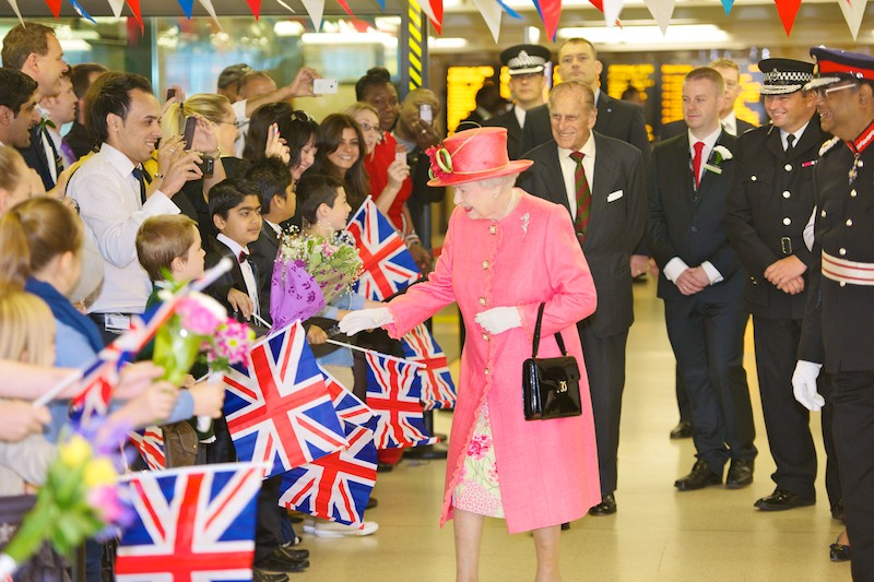 The photo's in this album were taken when Her Majesty The Queen, accompanied by HRH The Duke of Edinburgh, visited Birmingham as part of their Diamond Jubilee Tour. Officers and various policing teams were on duty to ensure the celebratory visit went safely, and thousands of people turned out to see the Royal party at Snow Hill station, Victoria Square and Queen Elizabeth Birmingham Hospital.